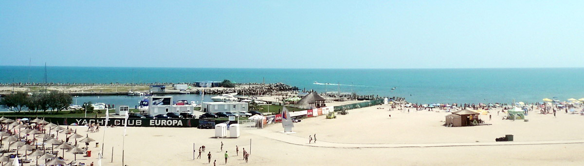 Eforie Nord, the sea